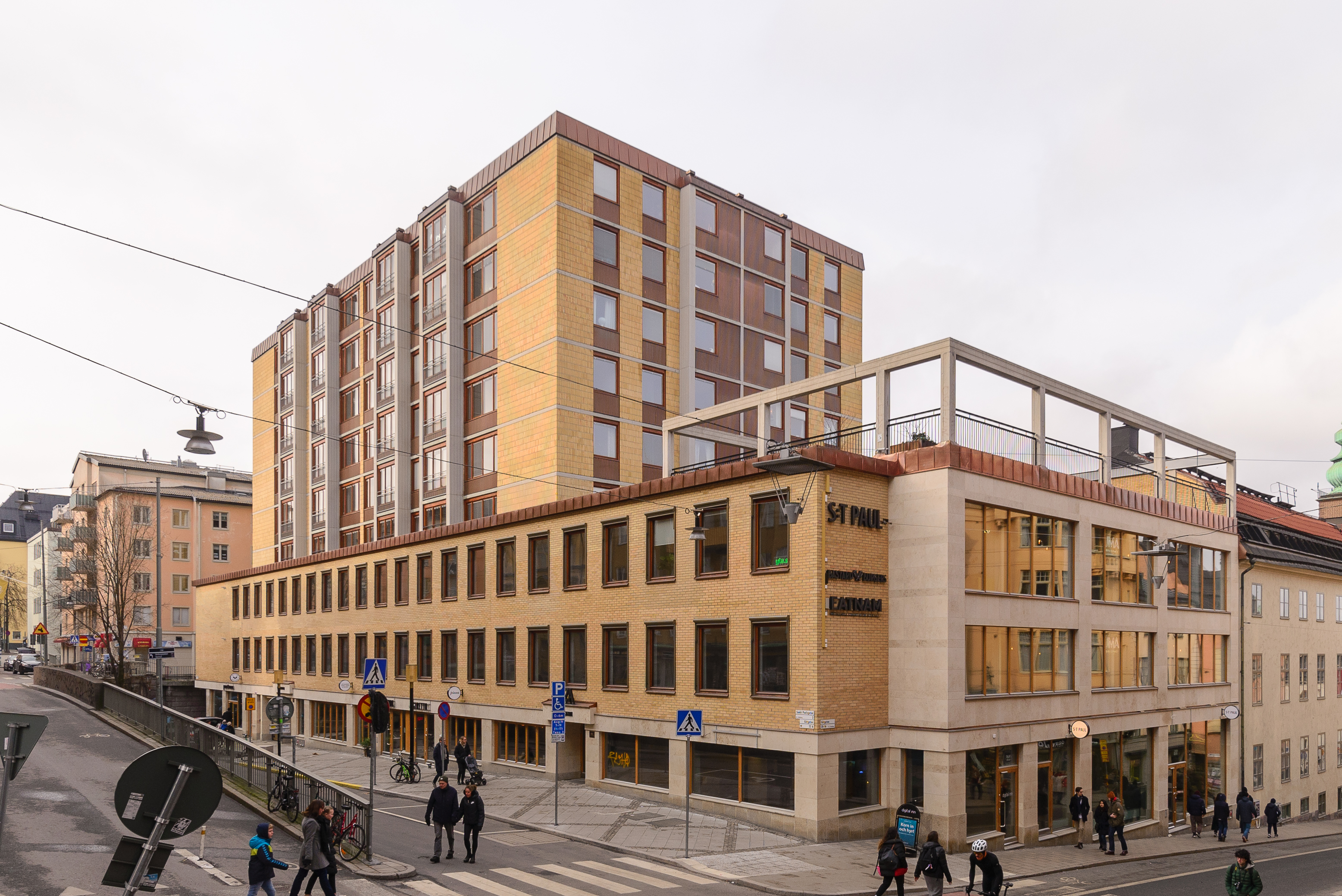 Schönborg 6 is a residential and office building in the intersection of Götgatan and Sankt Paulsgatan in Södermalm, Stockholm.